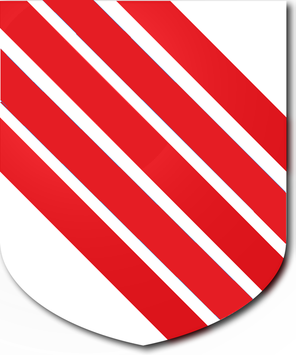 Ariani shield